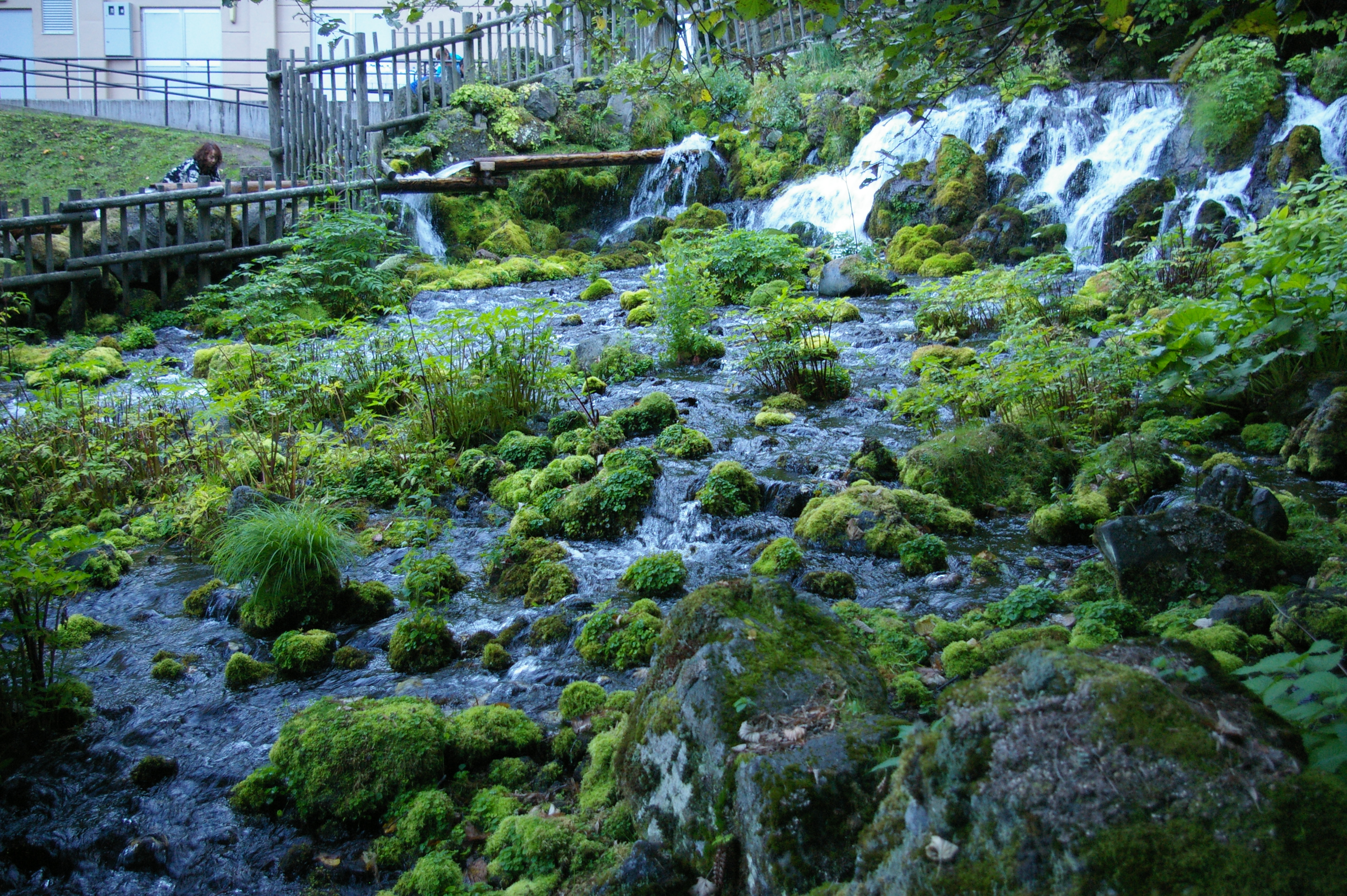 Japan: Fukidashi park in Kyogoku (Hokkaido prefecture).